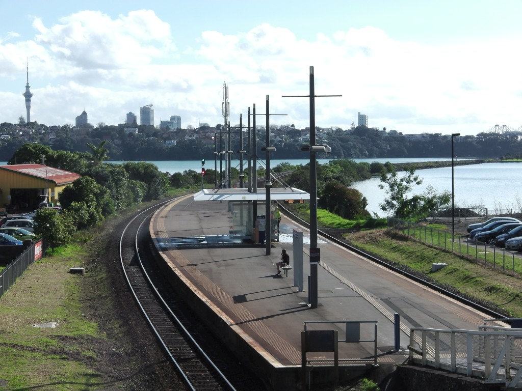 Orakei railway station in Auckland in 2013, looking towards Britomart